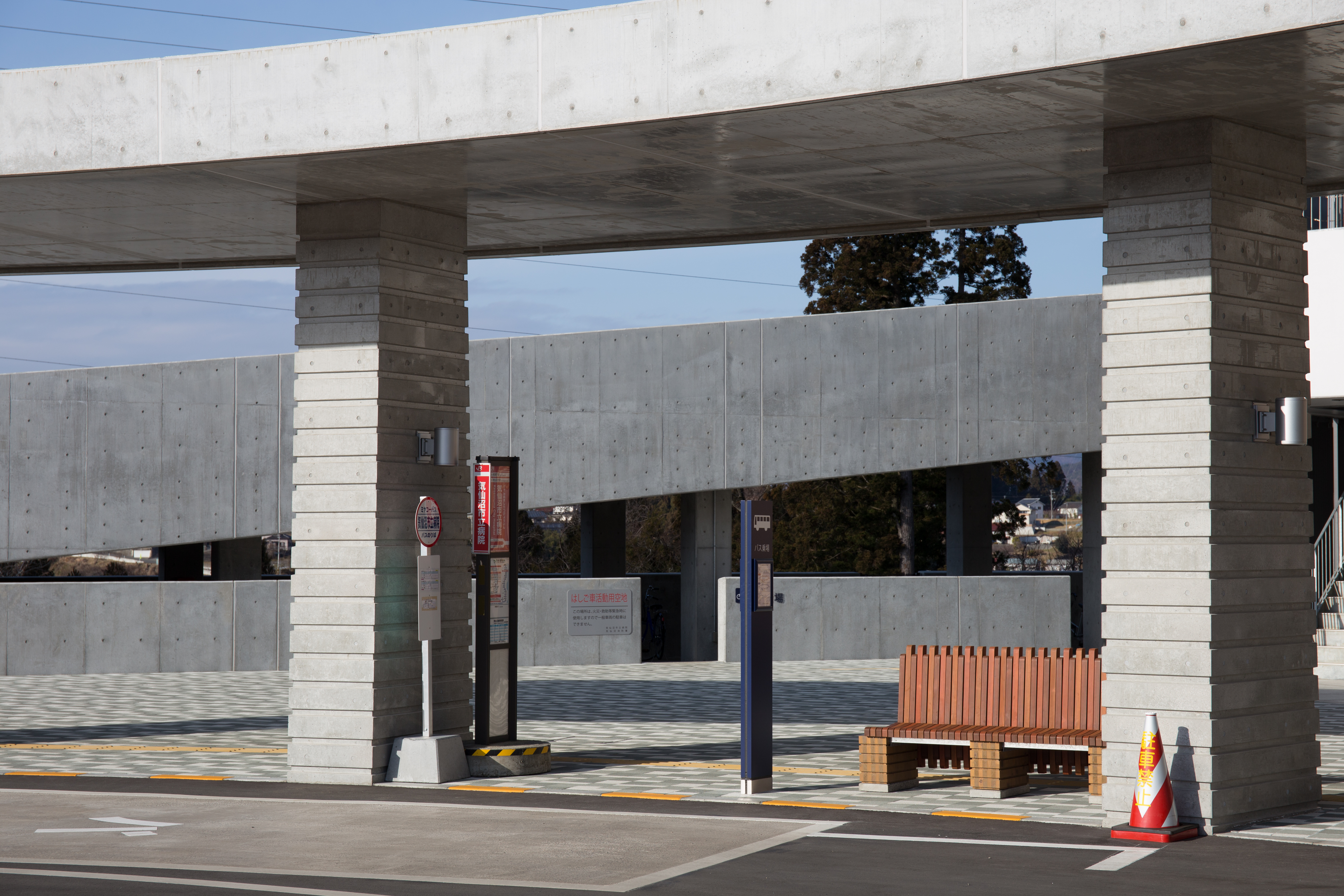 Kesennuma City Hospital Station on the JR East Kesennuma Line BRT in Kesennuma City, Miyagi Prefecture, Japan